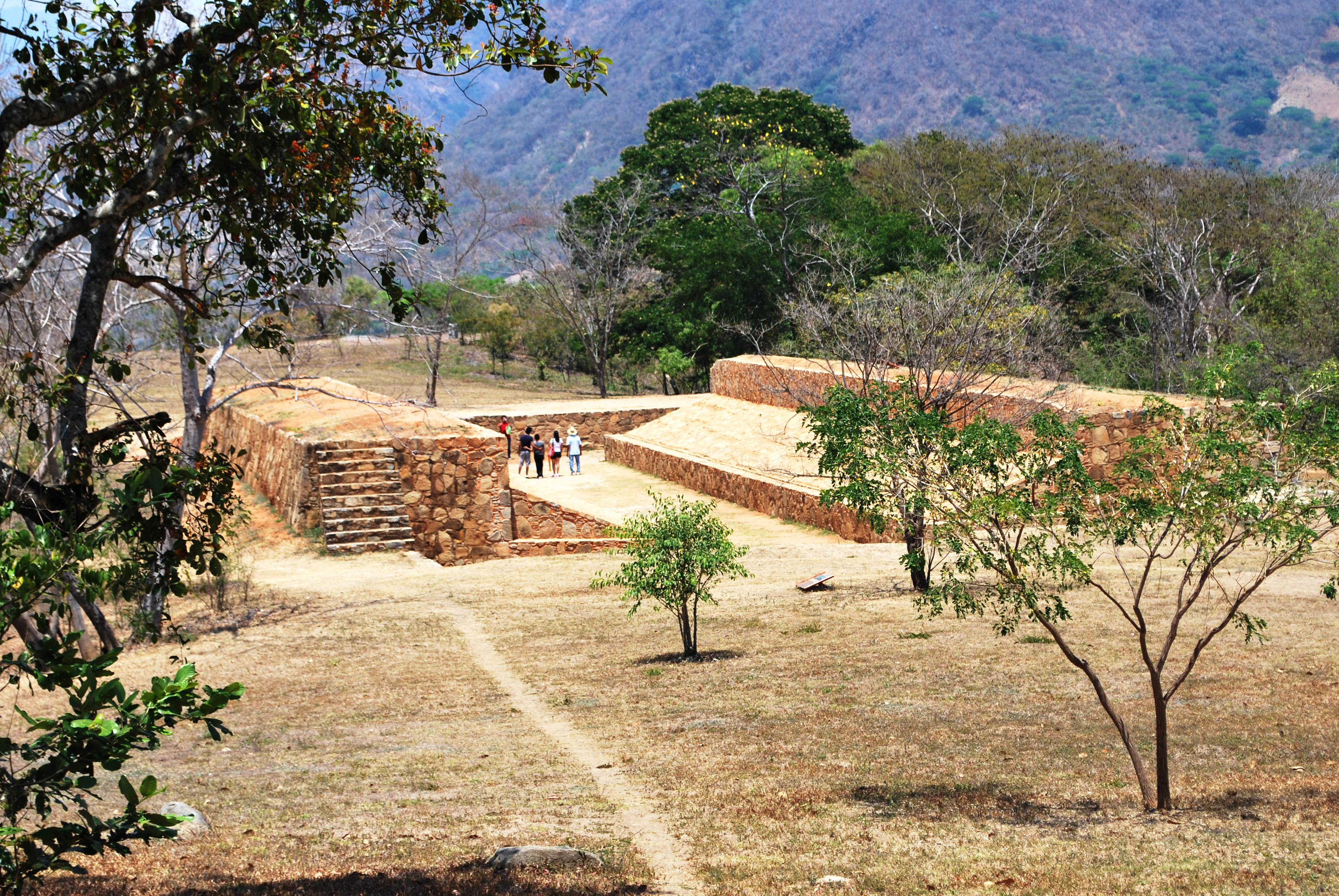 Mesoamerican ballcourt at Tehuacalco